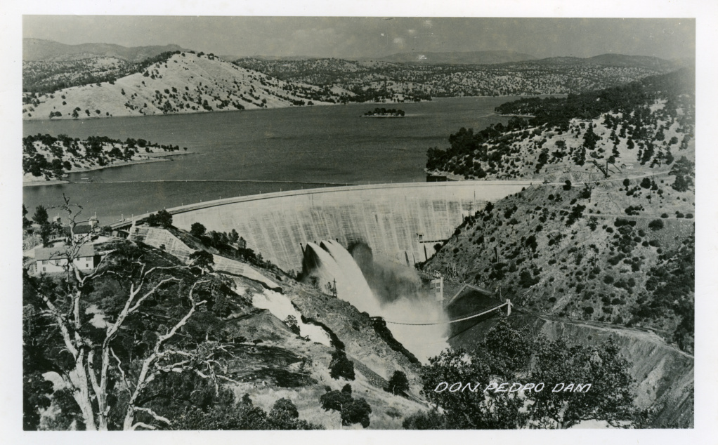 The Old Don Pedro Dam — and the Sierra Nevada foothills. Tuolumne County, California.